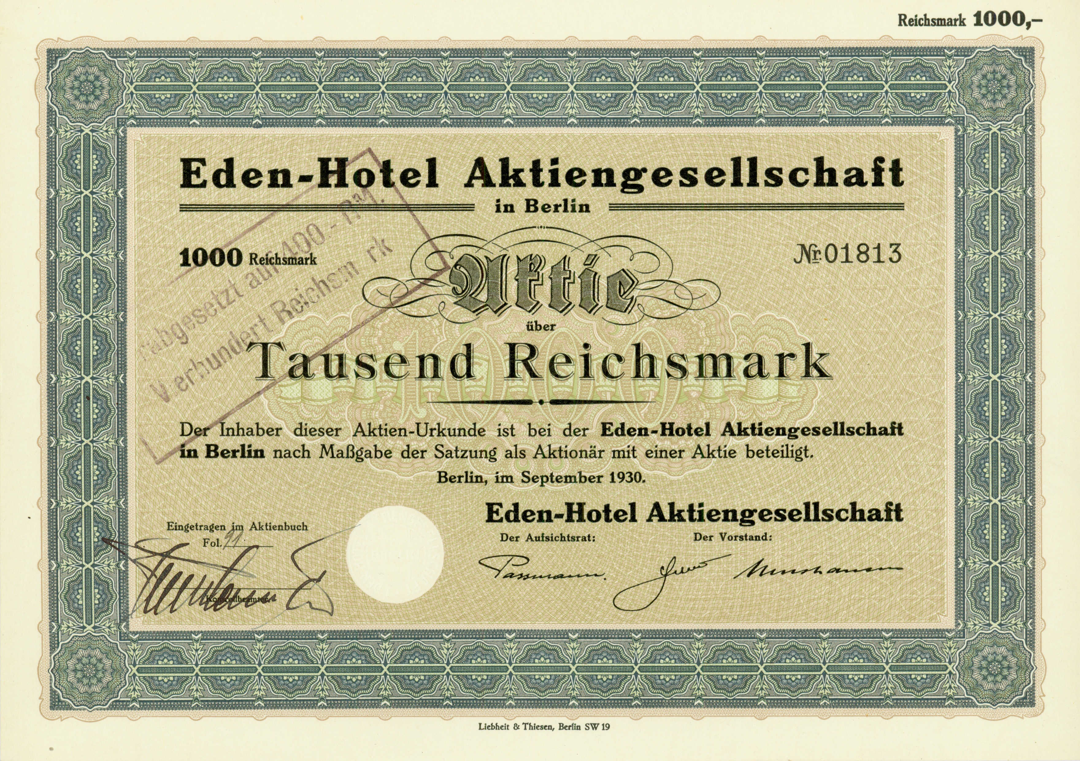 Share of the Eden-Hotel AG, issued September 1930